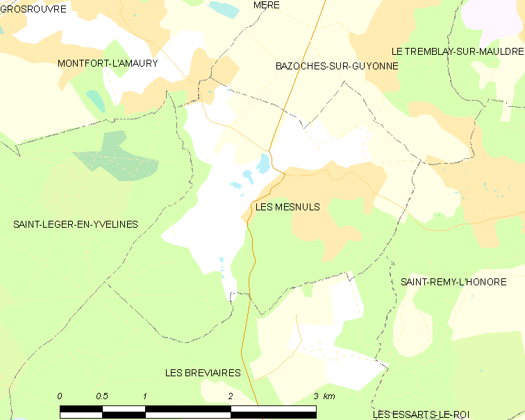 Map of French municipality Les Mesnuls